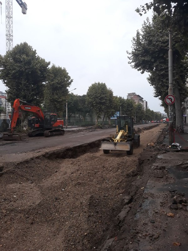 Belgrade, Serbia